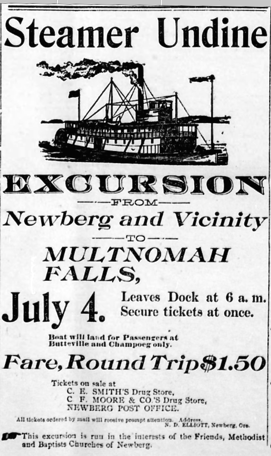 Advertisement for excursion on steamer Undine, placed in Morning Oregonian, June 24, 1898, p.3, cols.4-5.